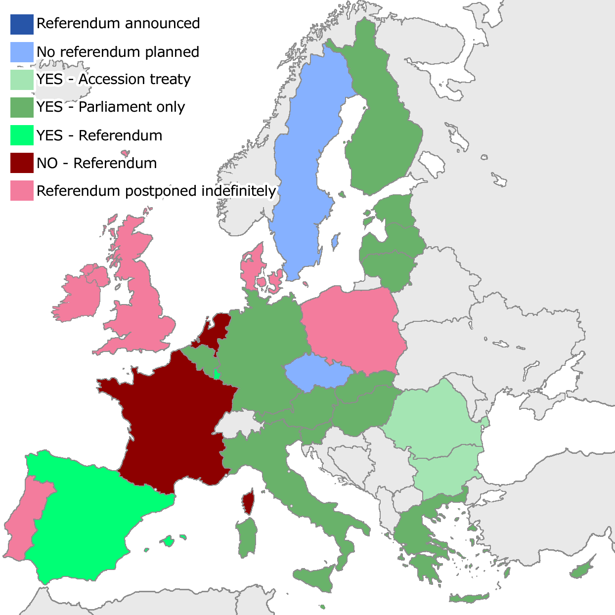 EU Constitution Ratification Map. Created by User:Aris Katsaris. Built by using and modifying a map created by User:Brion VIBBER. There should be no anti-aliasing, so that updating it will be easy. Changed referendum-yes color to brighter green, because the dark shade was uneasy to see - Luxembourg is too tiny and there it was hard to decide if it is dark green, dark blue or dark red. Alinor 17:10, 12 July 2005 (UTC)